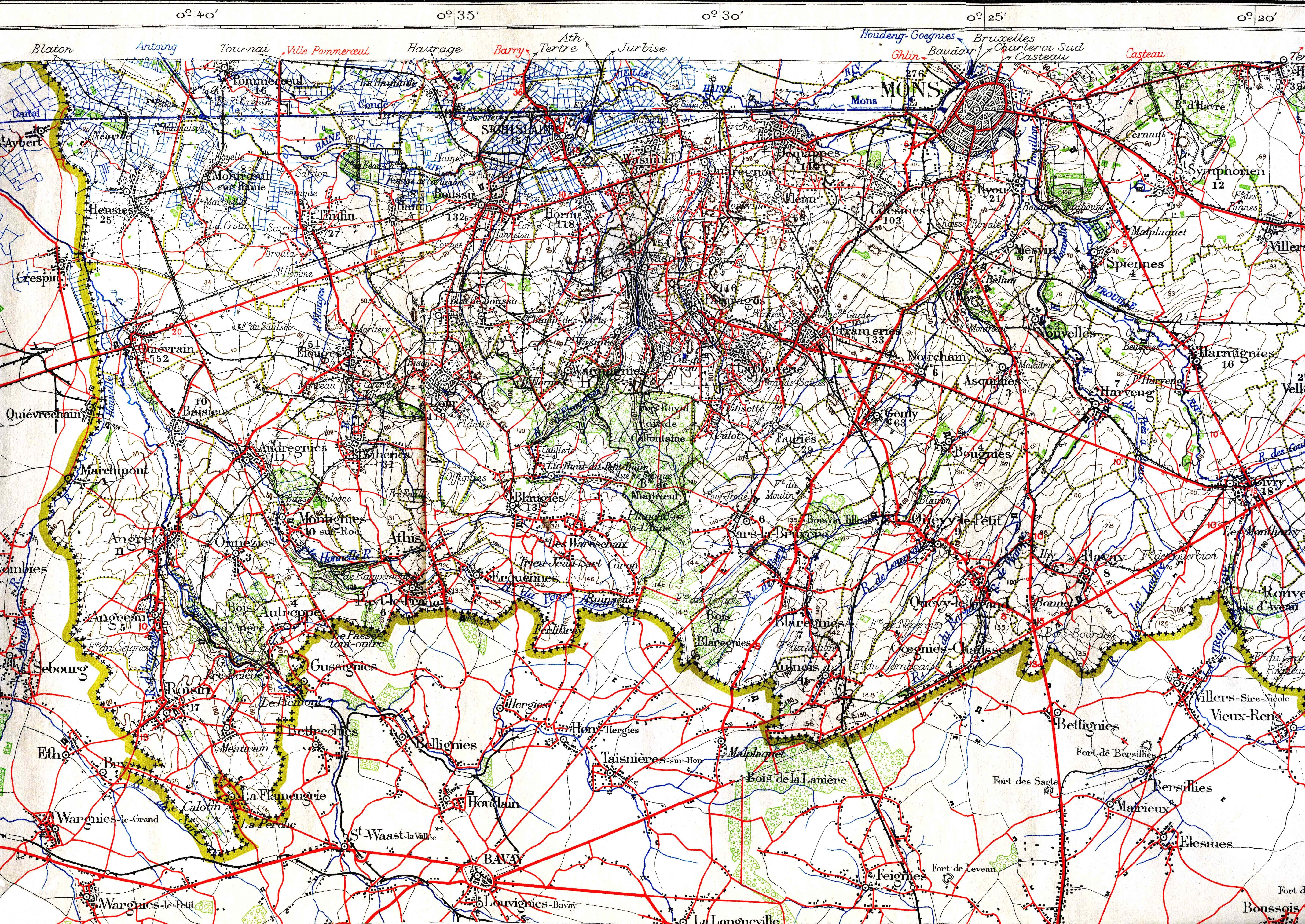 The region around Mons and the French border in 1933. This shows the railways and trams around that time. This military staff map was cut up and pasted on a canvas. Railway lines are black lines with marks on one side. Smalltrack is a thinner line. If there are marks on both sides it is double track.